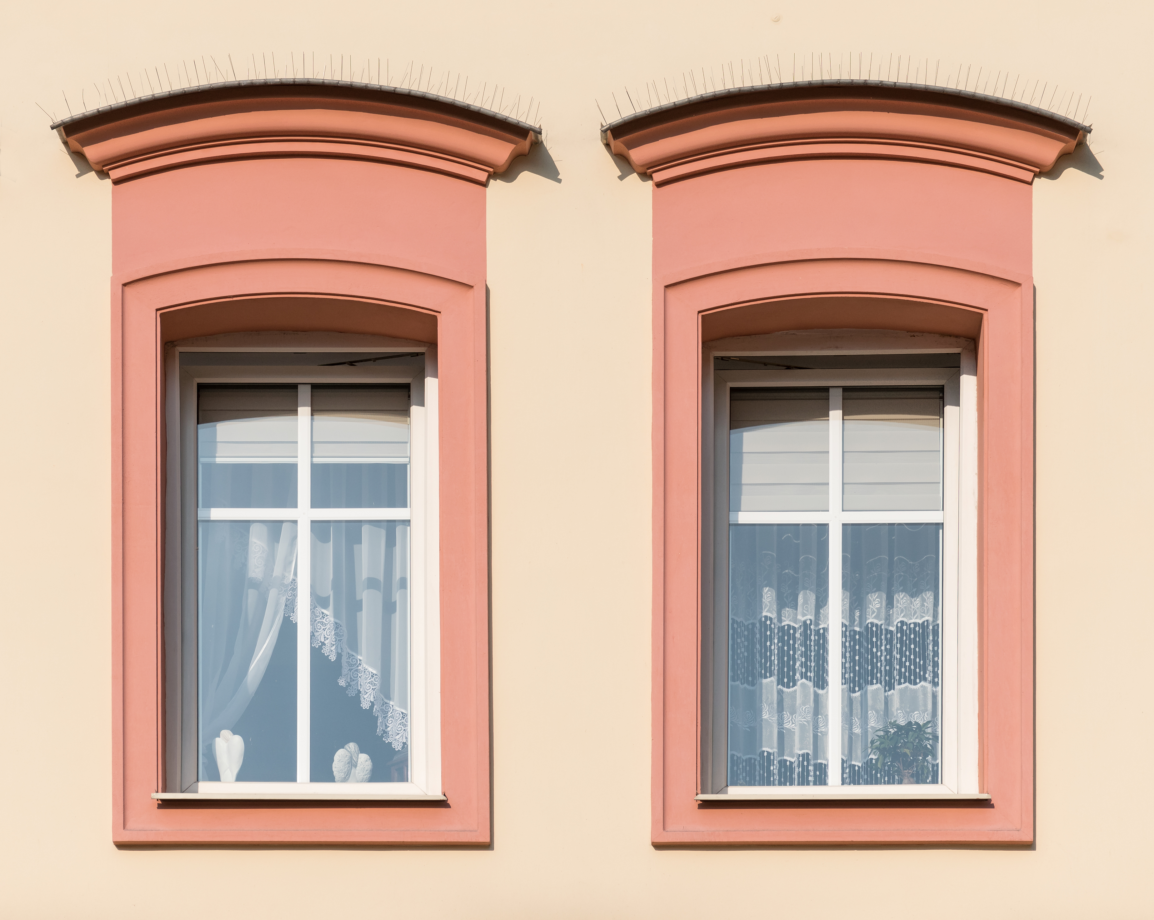 3 Market Square in Nowa Ruda